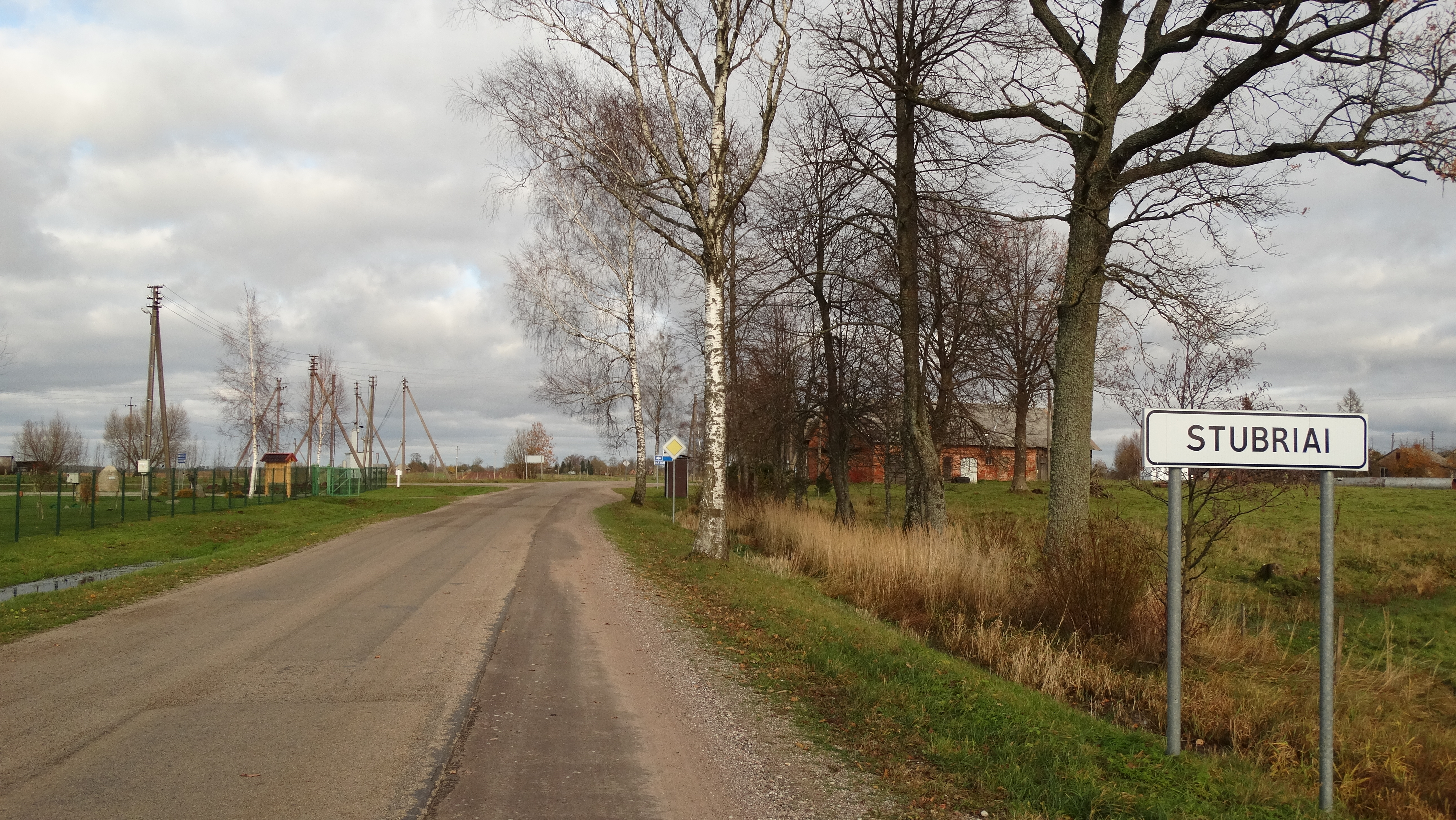 Stubriai, Šilutė district, Lithuania